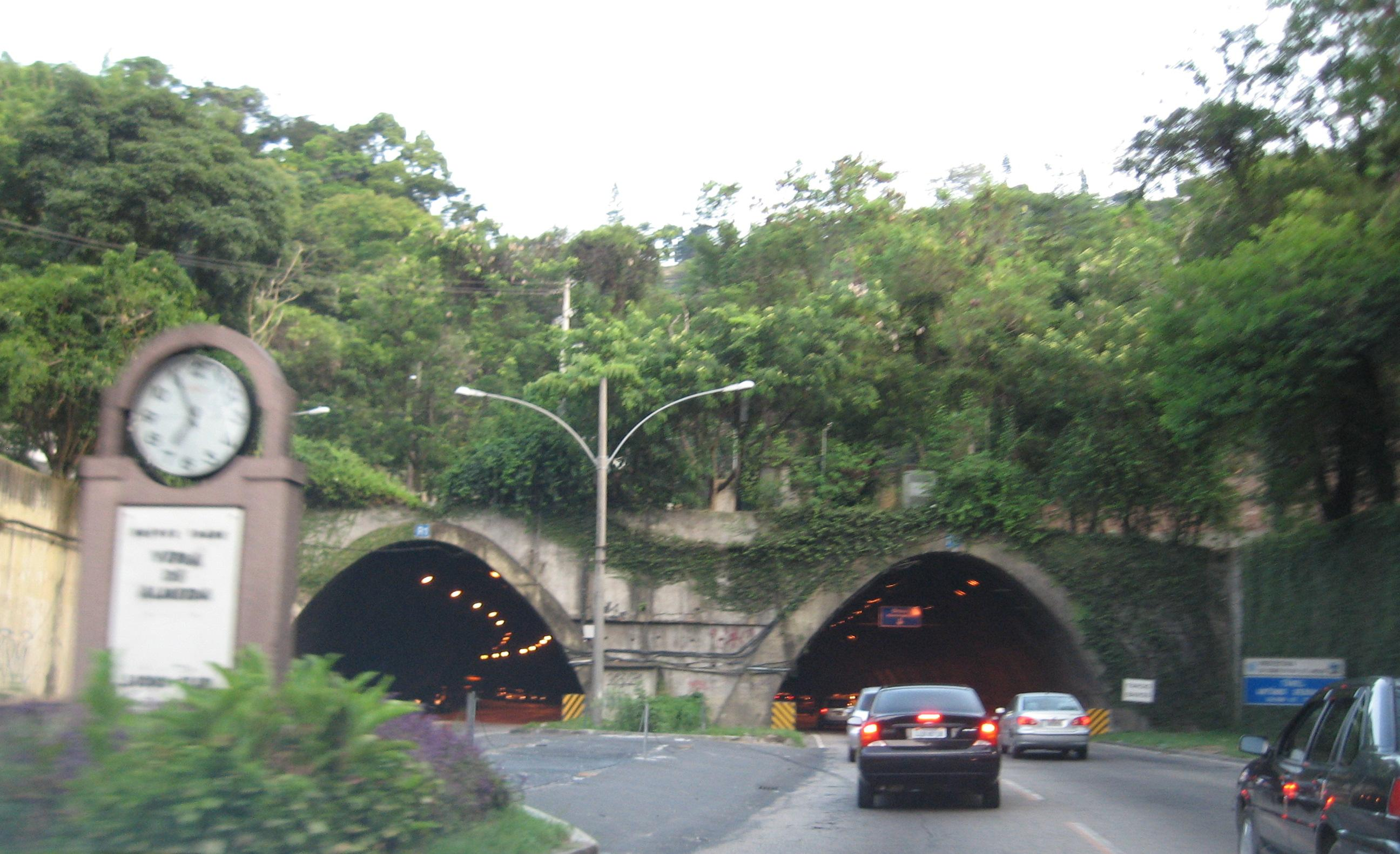 Rebouças Tunnel-Rio de Janeiro-Brazil